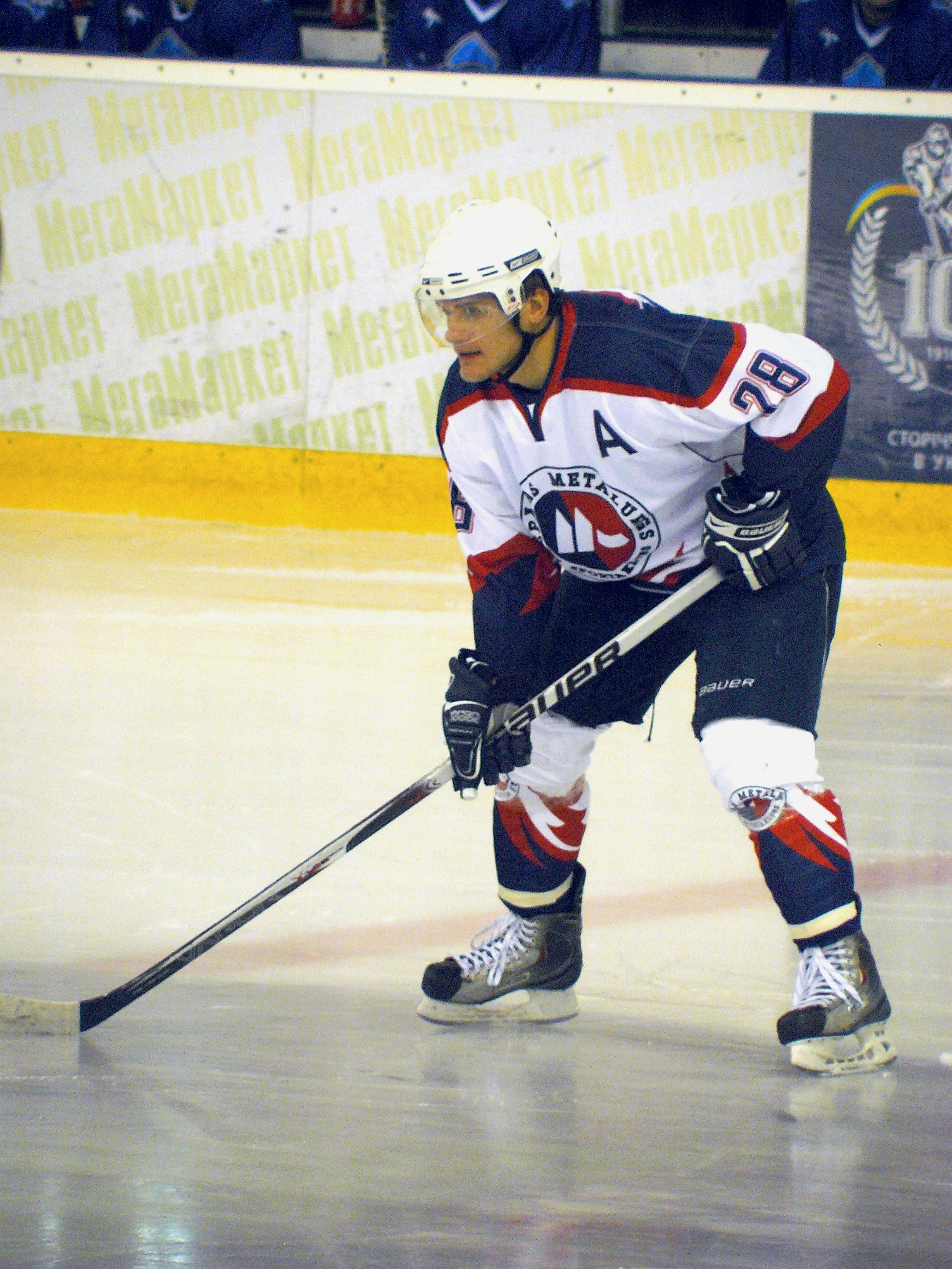 Left winger Vladimirs Mamonovs #28 of the Metalurgs Liepaja during the Belarus Extraliga game against the Sokil Kyiv on September 13, 2010 at the Terminal Arena in Brovary, Ukraine. Sokil Kyiv won the game 3:1.